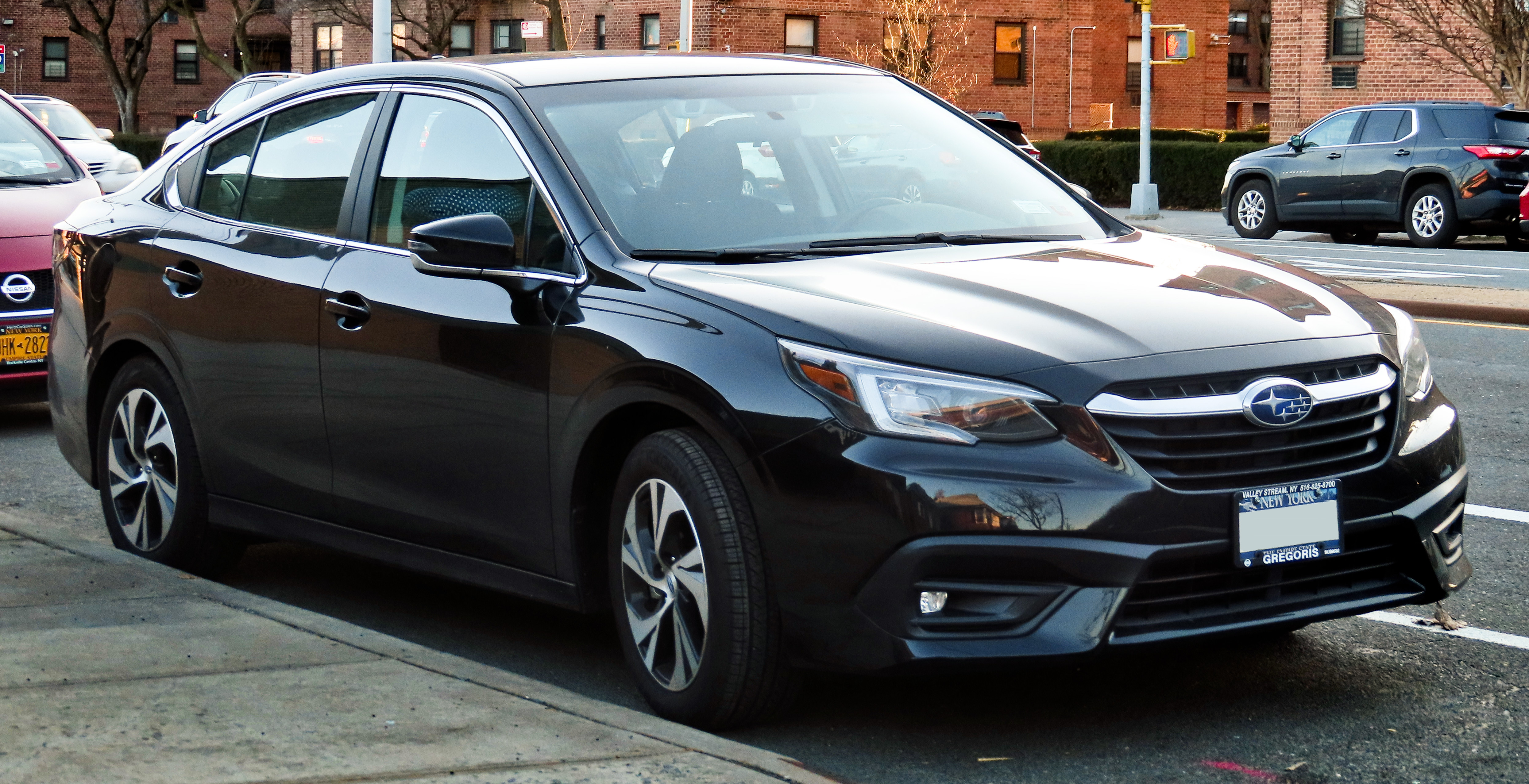 A 2020 Subaru Legacy Premium photographed in Fresh Meadows, Queens, New York, USA